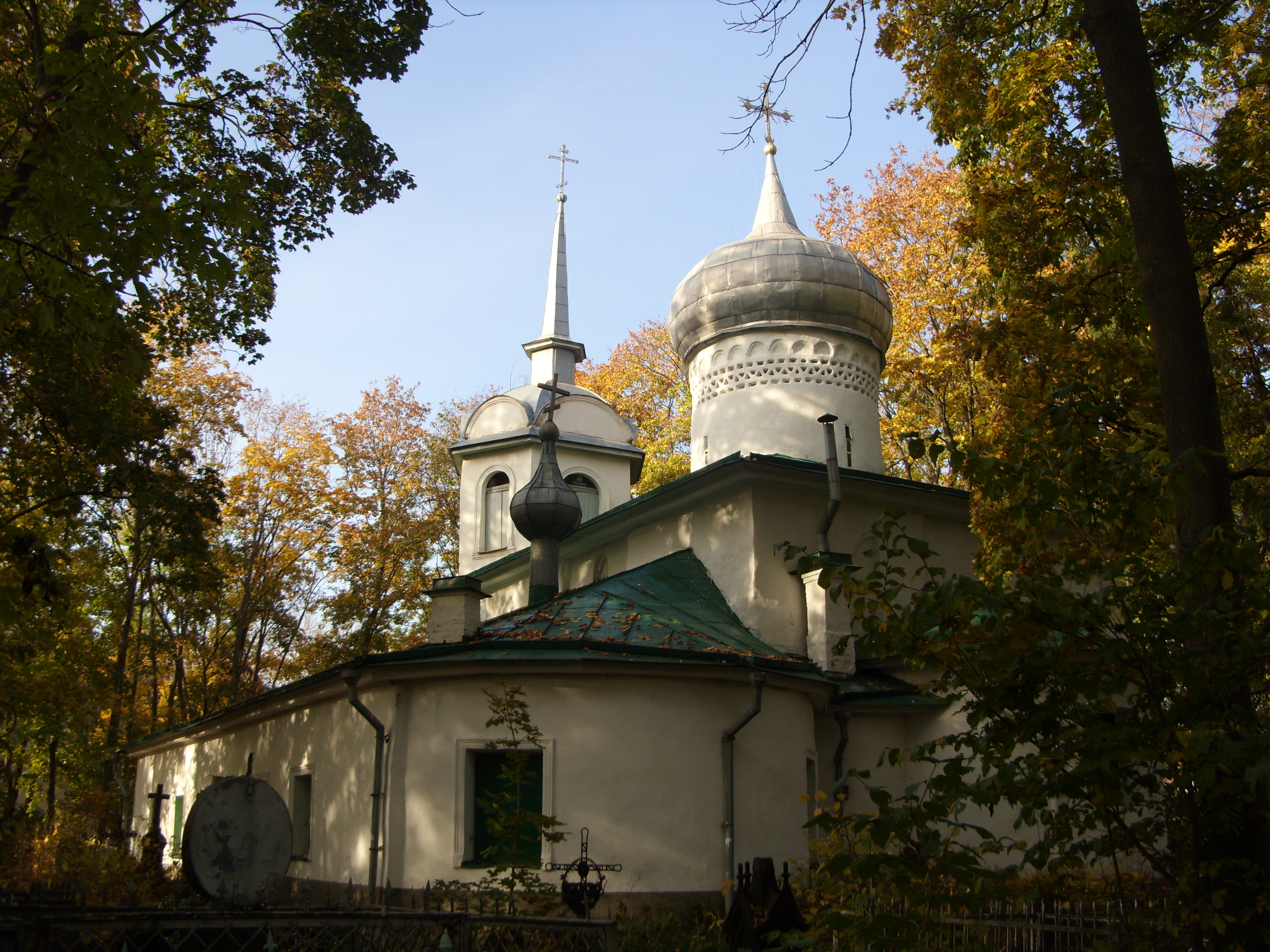 Dimitrija_Mirotochivogo